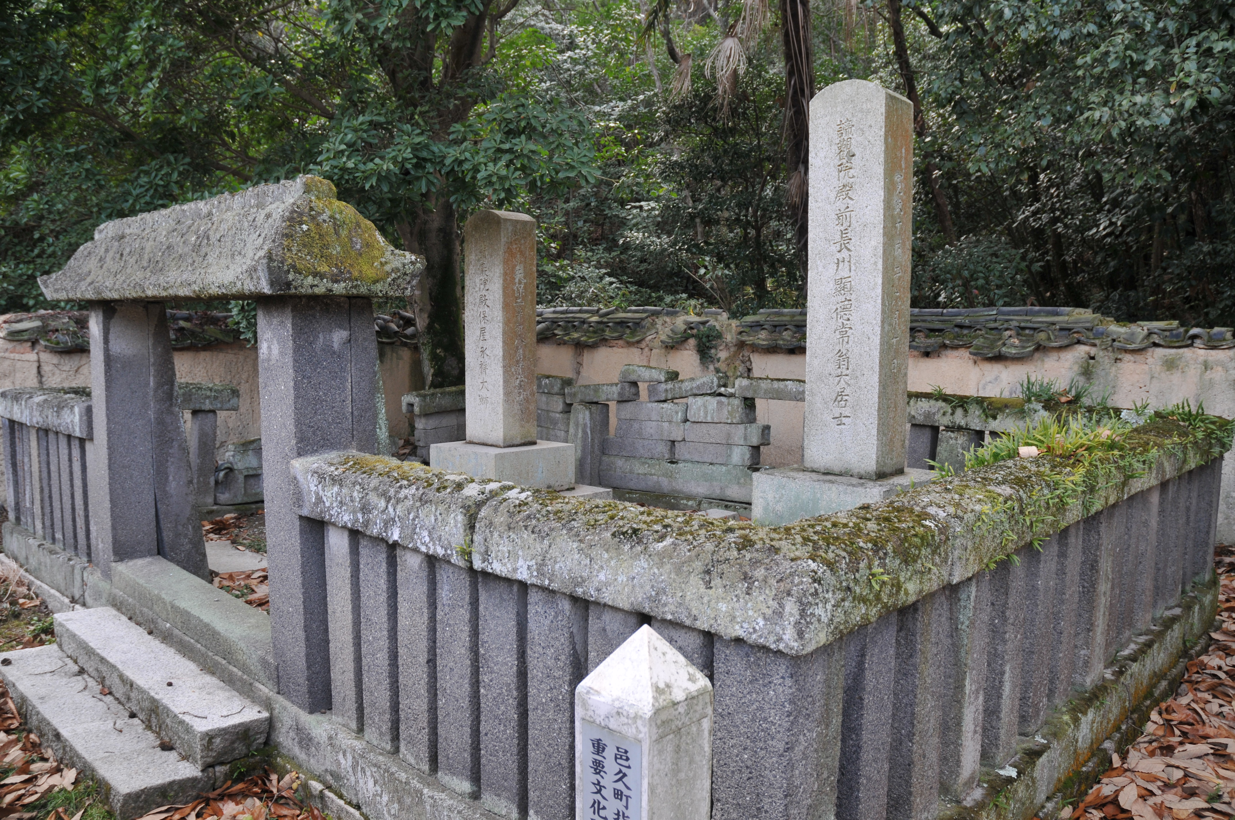 graves of Igi Tadatomi(8th family head) and his wife